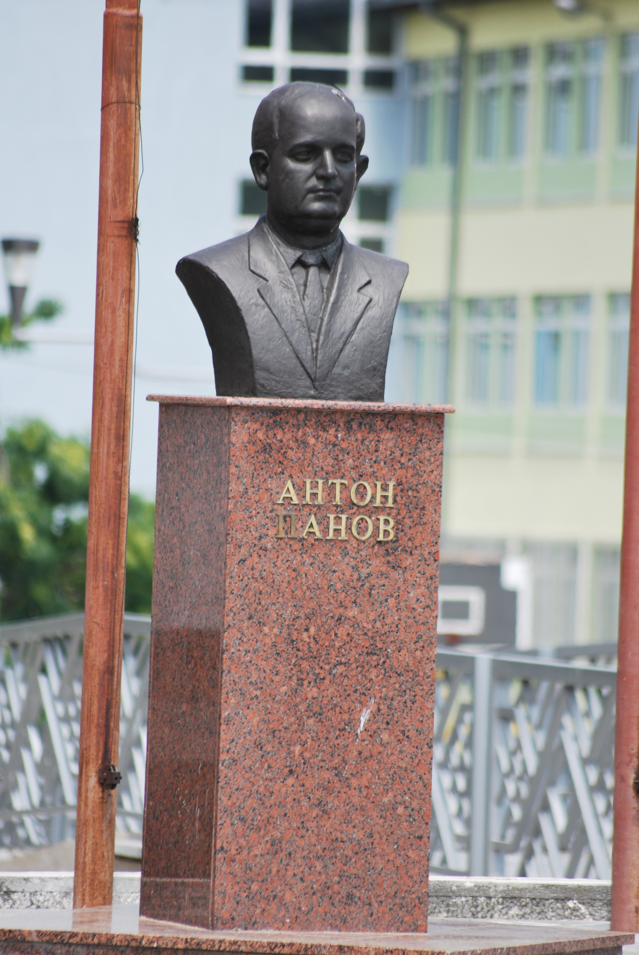 Strumica, Macedonia